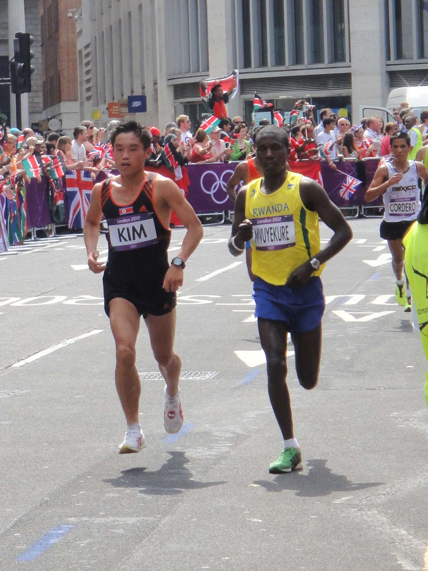 Kwang-Hyok Kim (North Korea) & Jean Pierre Mvuyekure (Rwanda) - London 2012 Men's Marathon